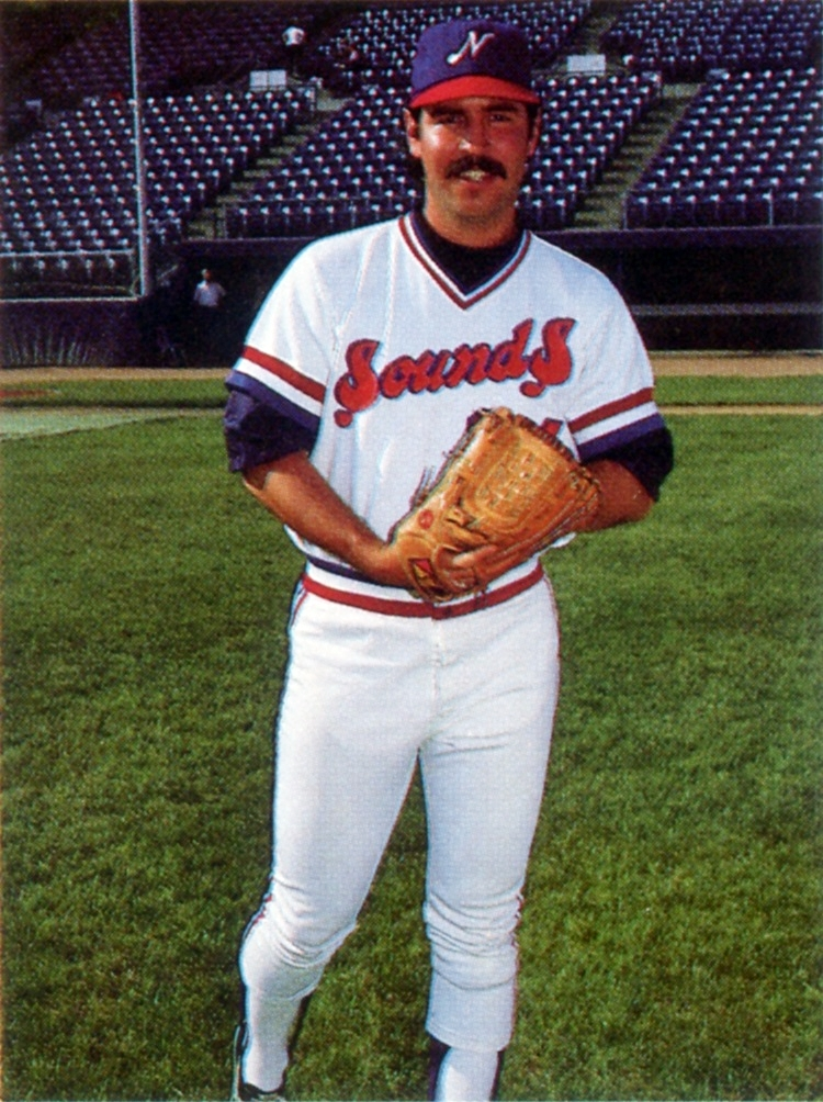 Pitcher Steve Shirley of the 1985 Nashville Sounds Minor League Baseball team of the American Association